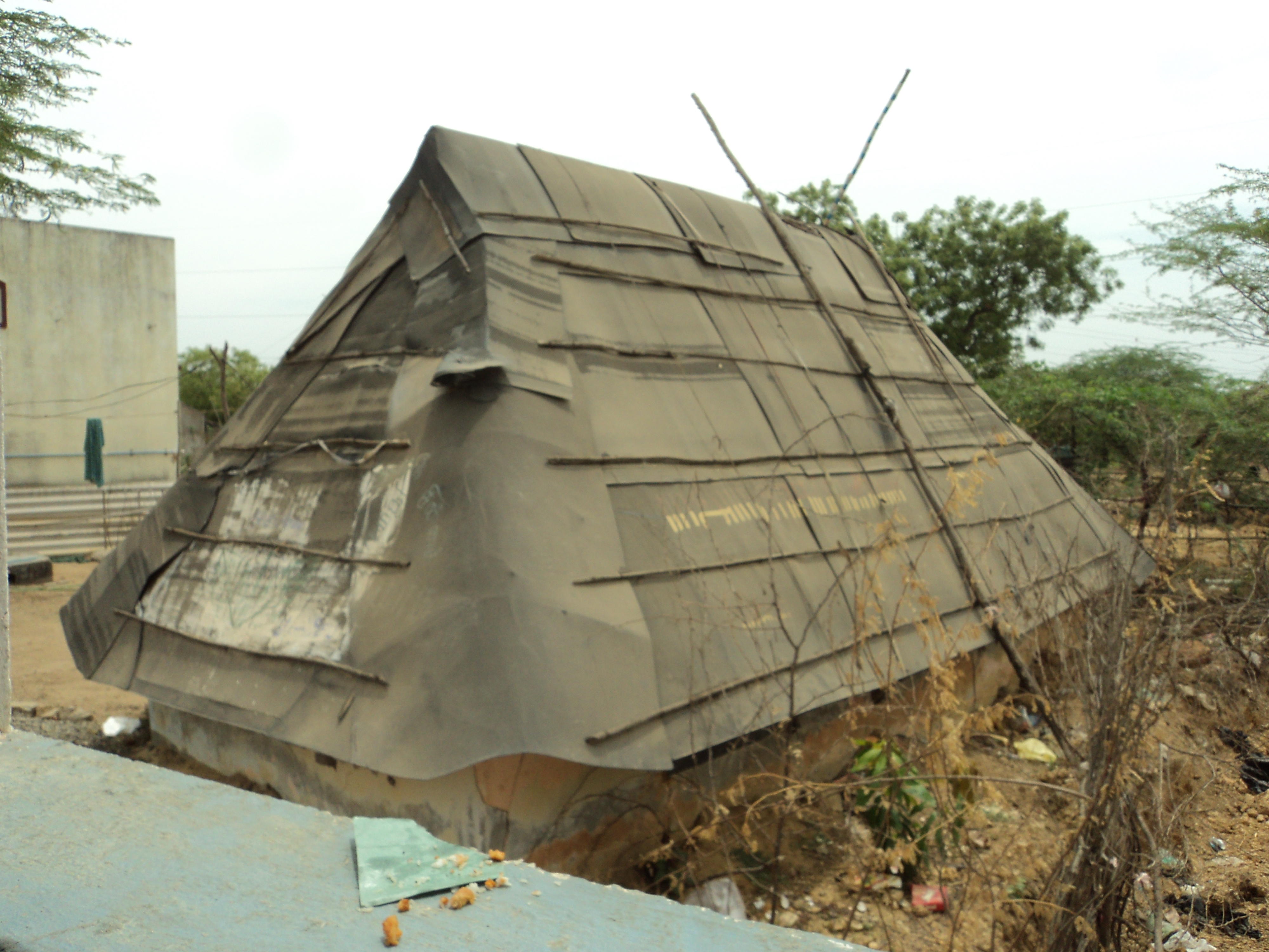 Cottage made by using clay found in India